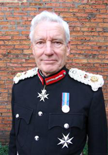 James Dugdale, 2nd Baron Crathorne , Lord Lieutenant of North Yorkshire]